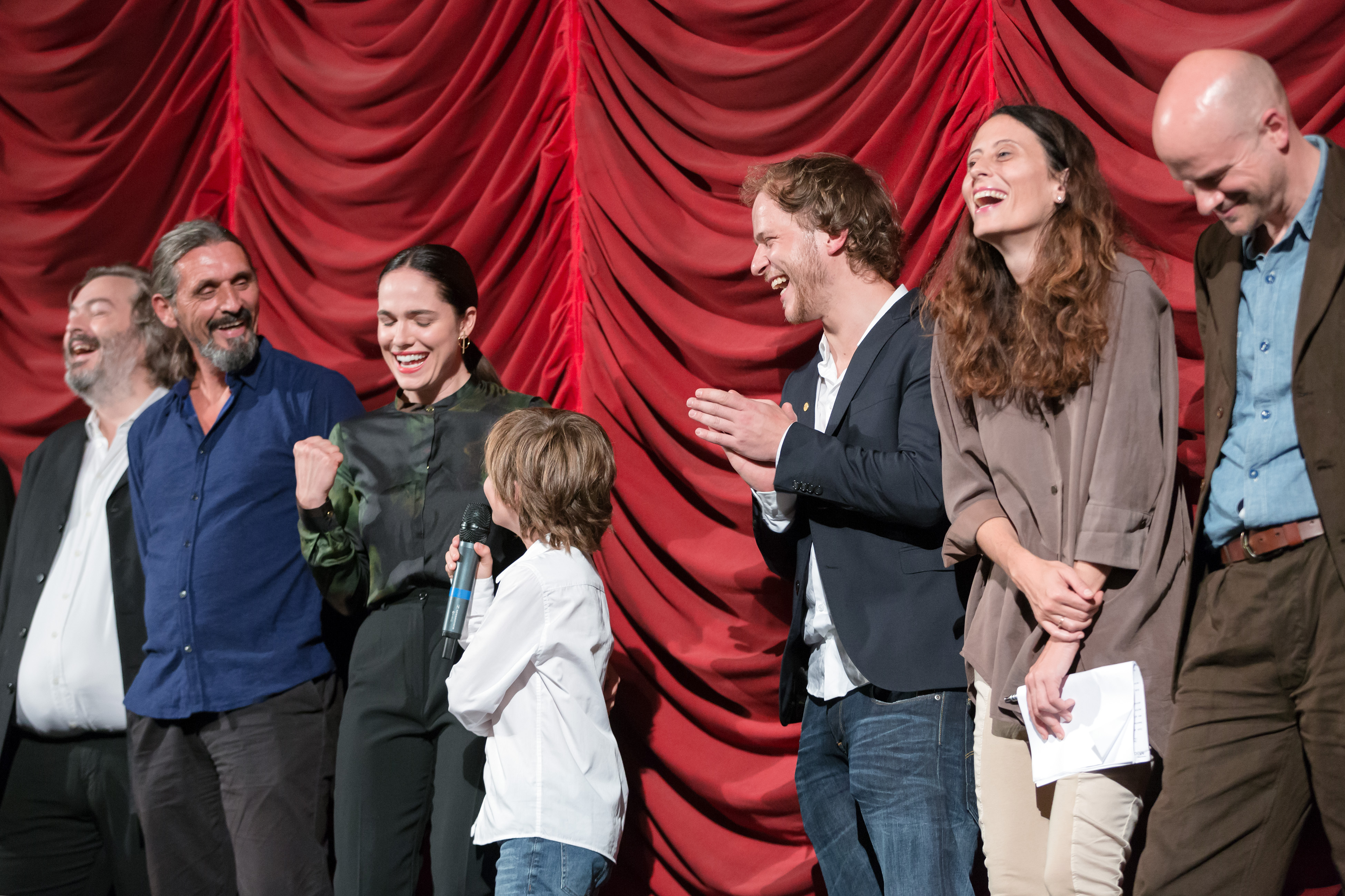 Wolfgang Ritzberger, Günter Goiginger, Verena Altenberger, Jeremy Miliker and Adrian Goiginger with presenter Tiziana Aricò and further members of the film team at the Viennese premiere of The Best Of All Worlds at Gartenbaukino, Vienna, Austria.